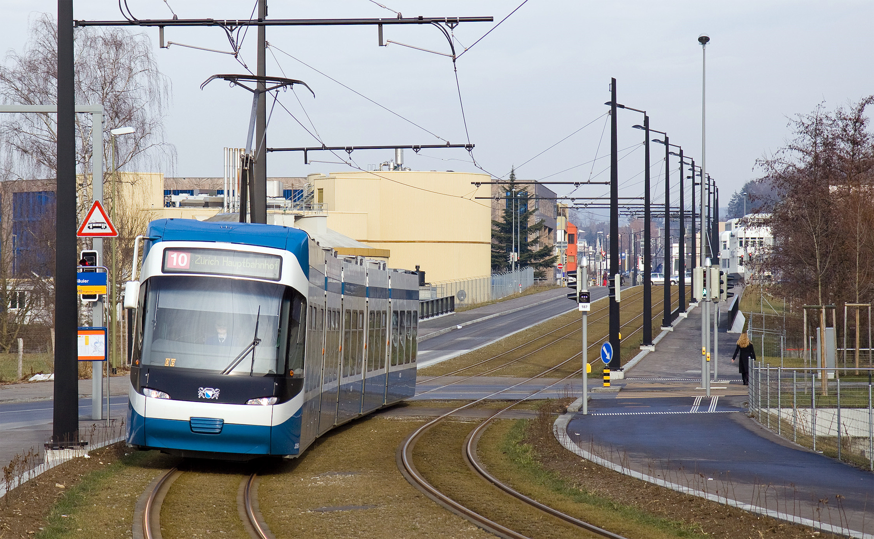 VBZ Cobra tram on the recently completed second stage of the Glattalbahn just before the Glattbrugg Unterriet stop.